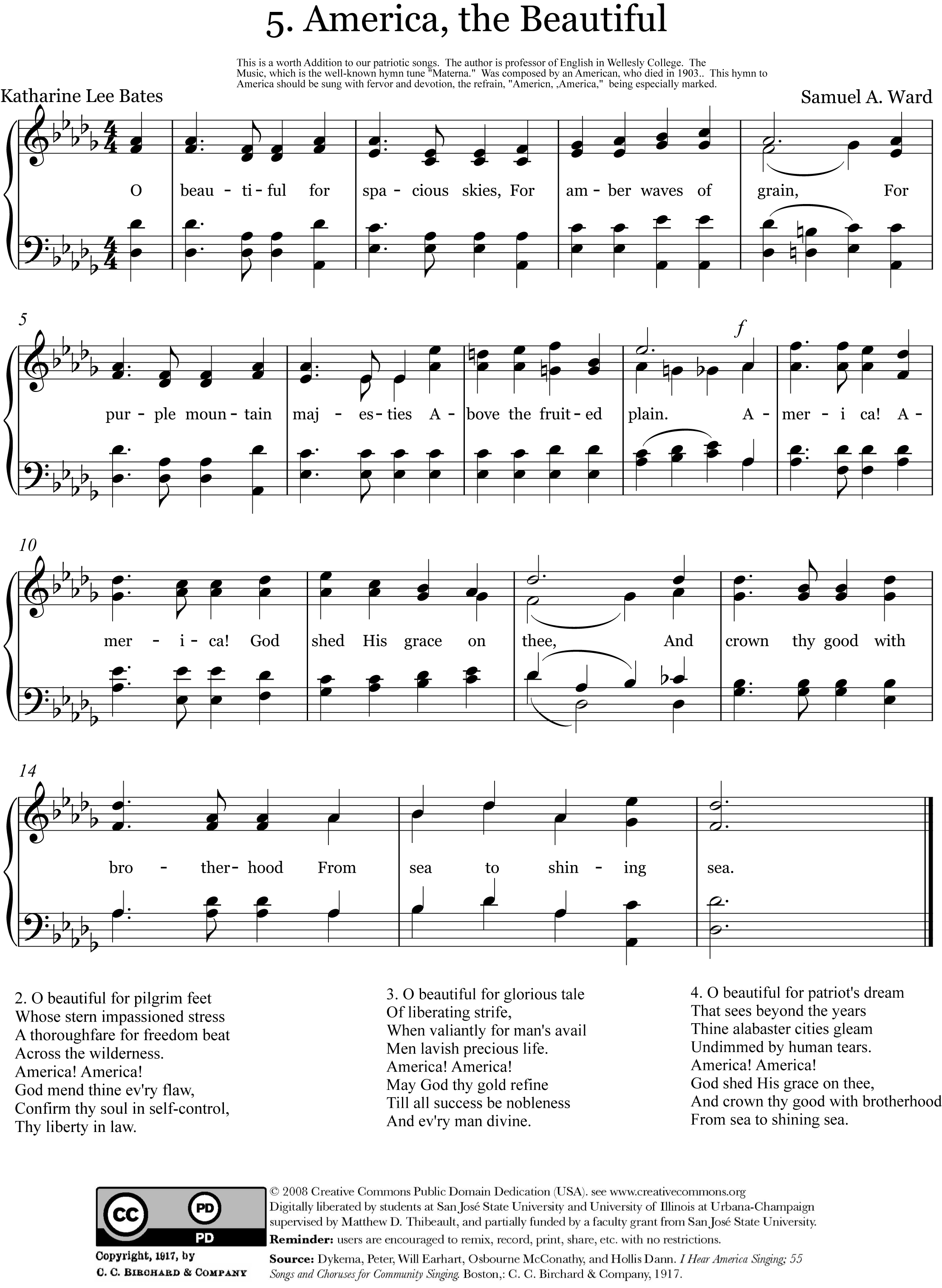 American, the Beautiful